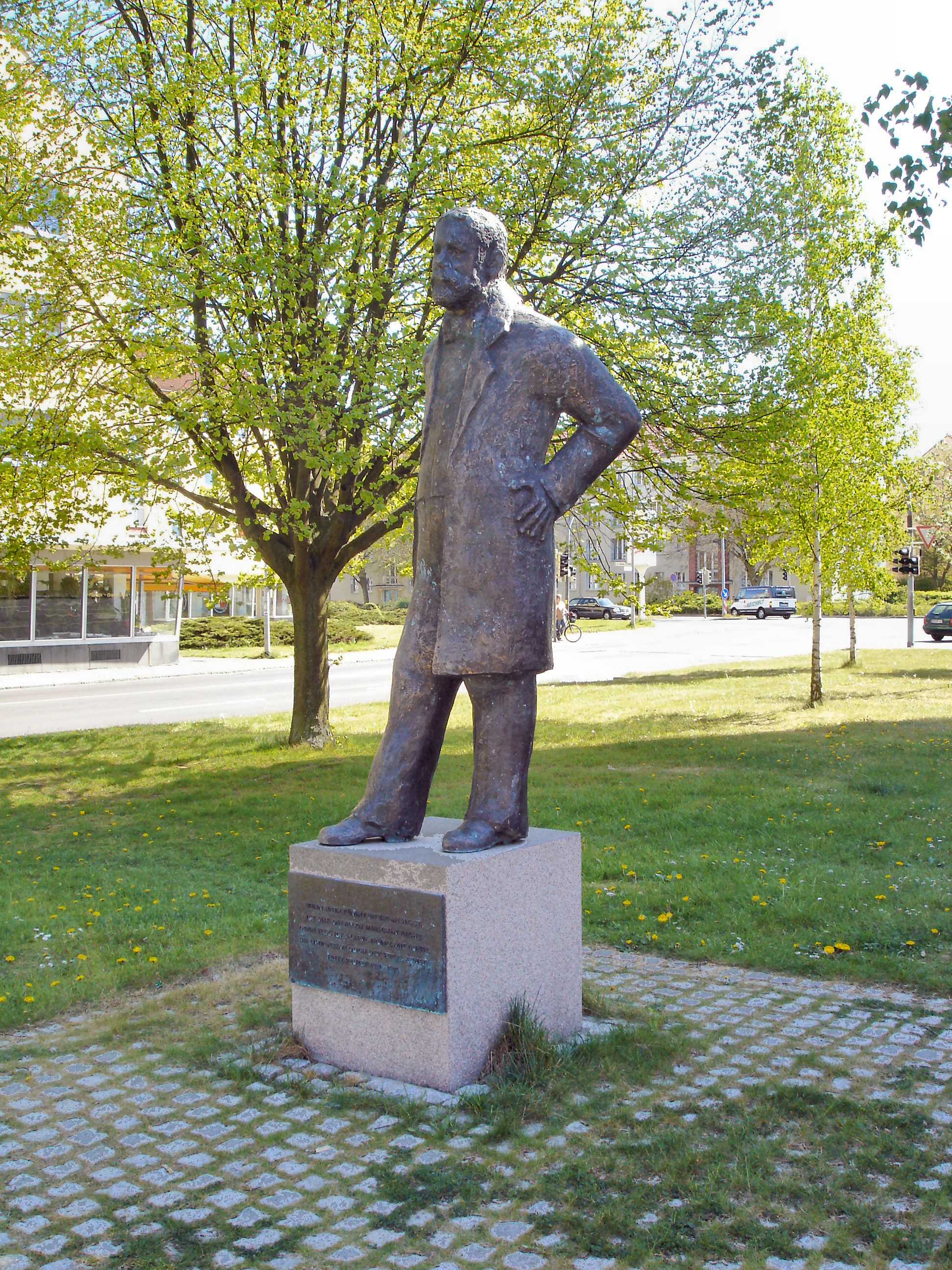 Sculpture "Fritz Reuter" by Thomas Jastram in Rostock